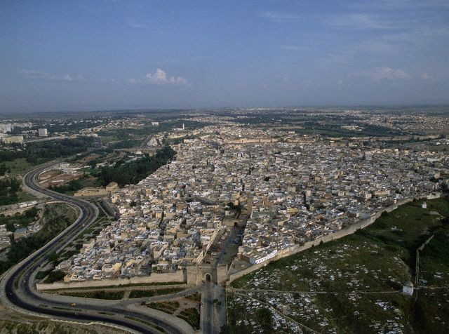 Aerial view over the west side of Meknes Médina, with Bab Berdaine Gate